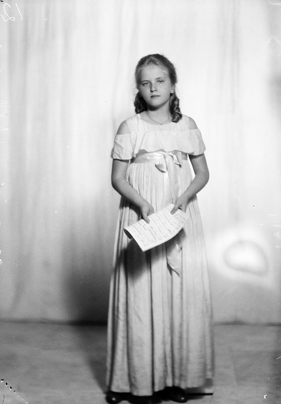 Tatiana Angelini (1923-2006), between 1925 and 1941.